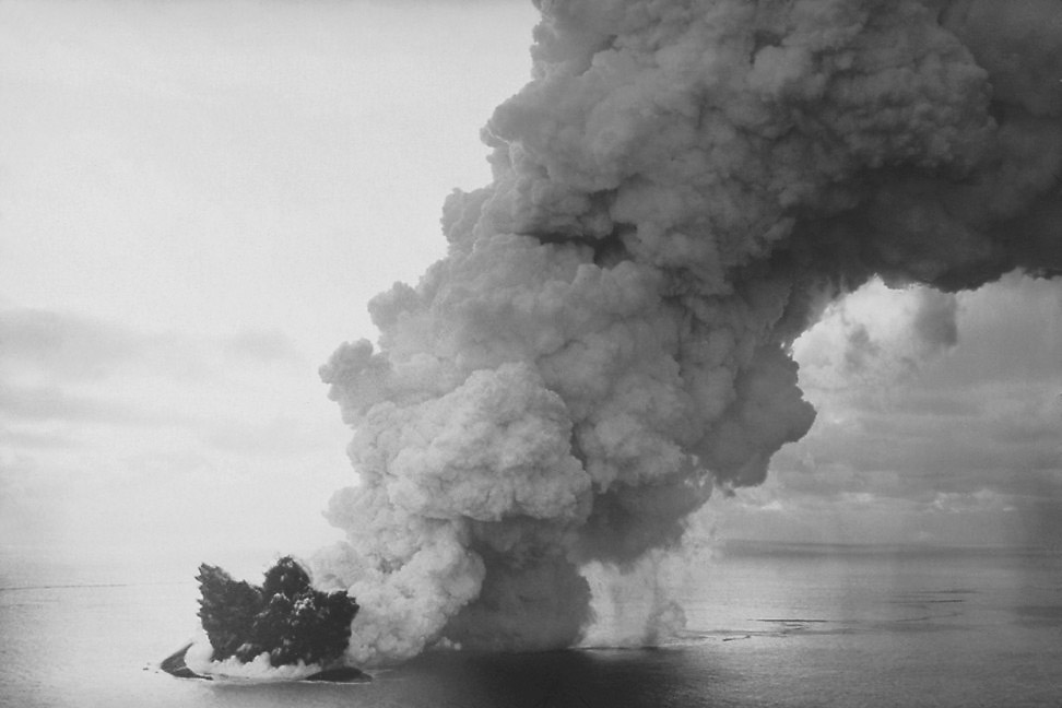 Surtsey during its eruption.